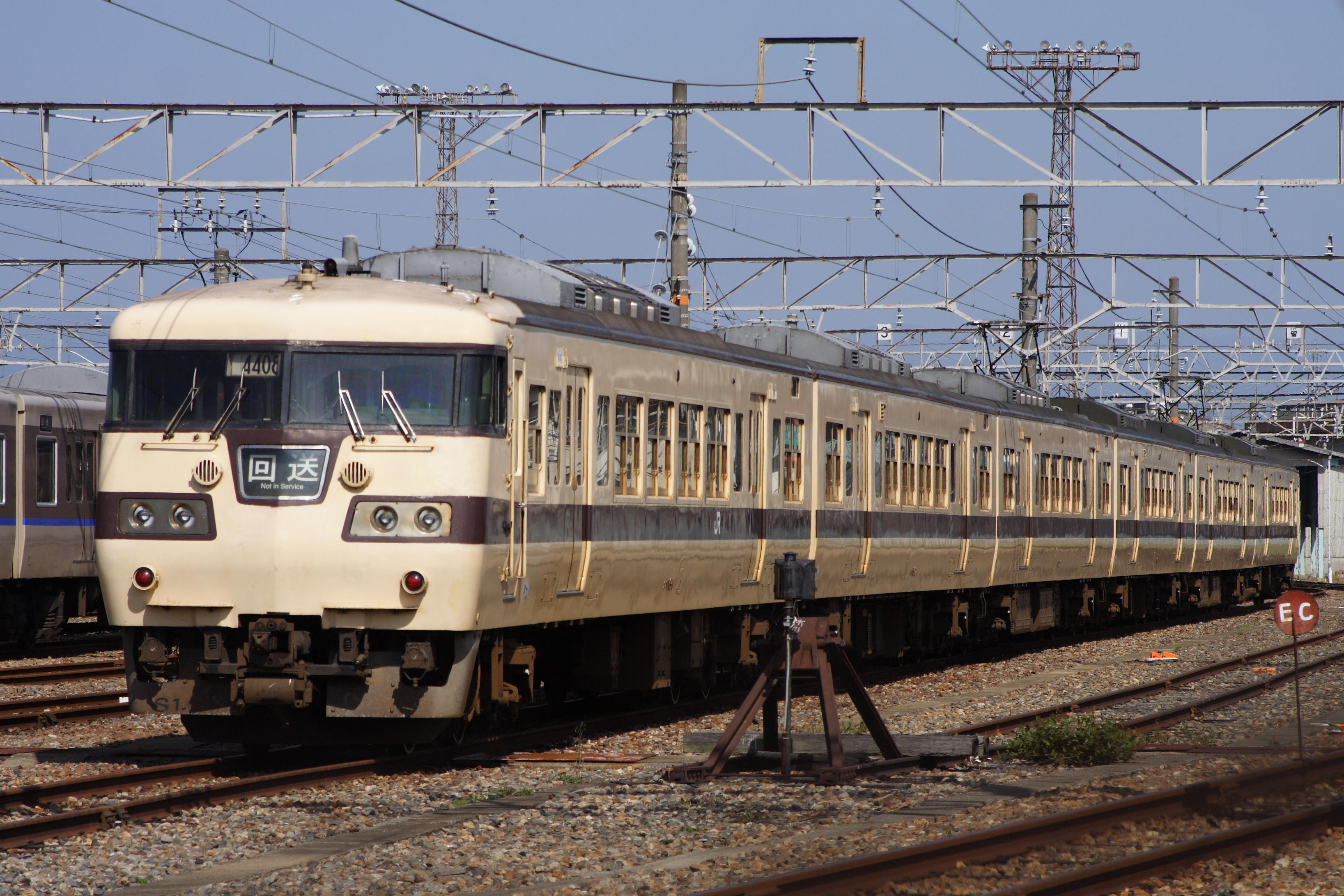 JR西日本 117系電車・国鉄色/series 117 electric car of JR West Company